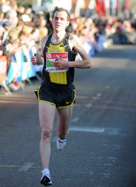 Sander Schutgens during Dutch Championship 10 km in Schoorl